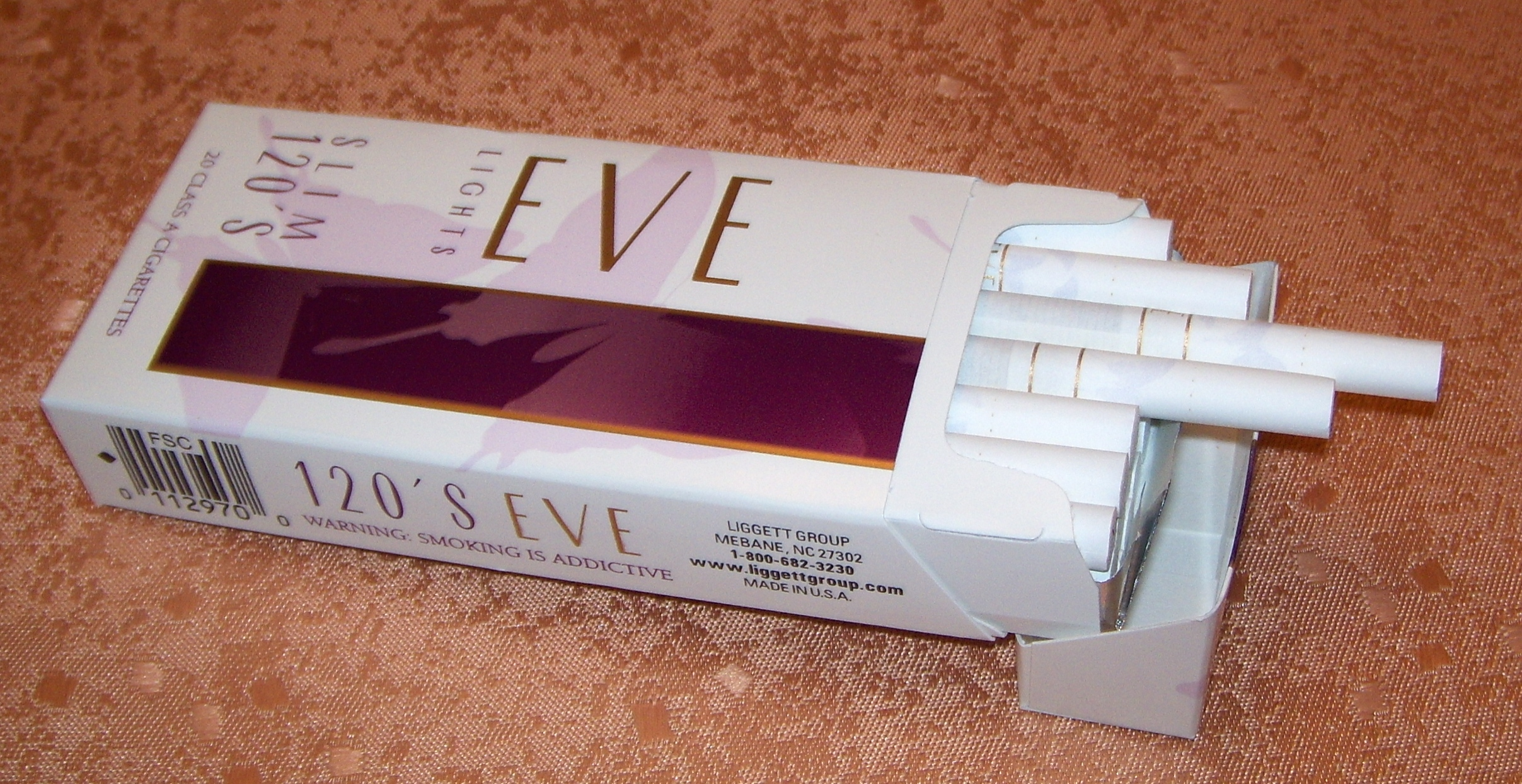 Unlit US-made Eve Light 120 (ultralight and menthol styles similar)